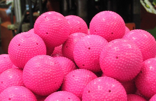 Bandyballs